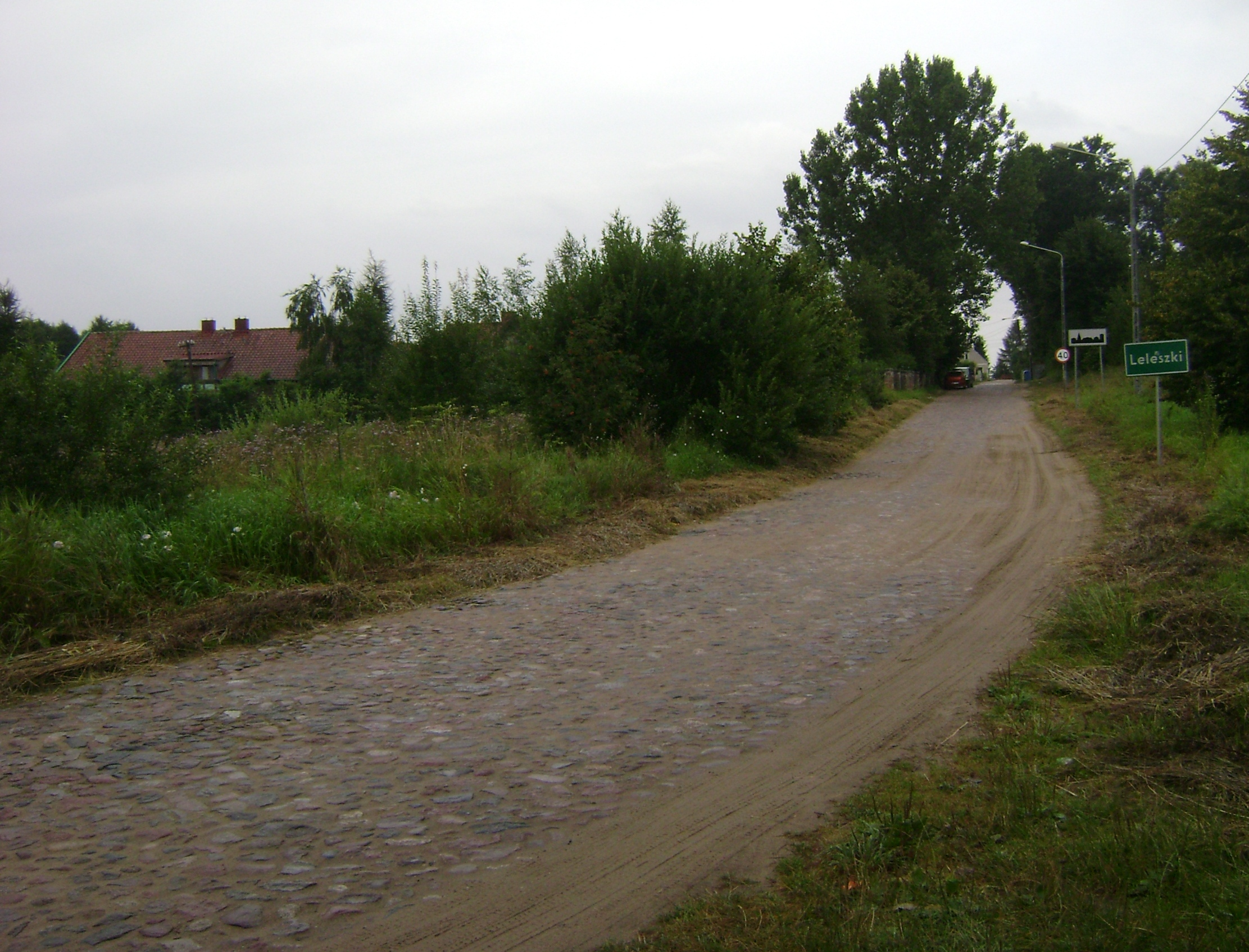 Leleszki